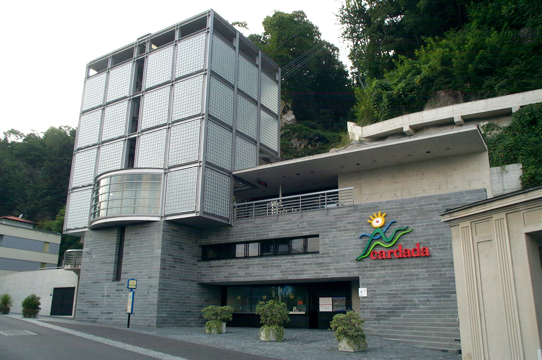 Station of the Orselina-Cardada cable car, by Mario Botta